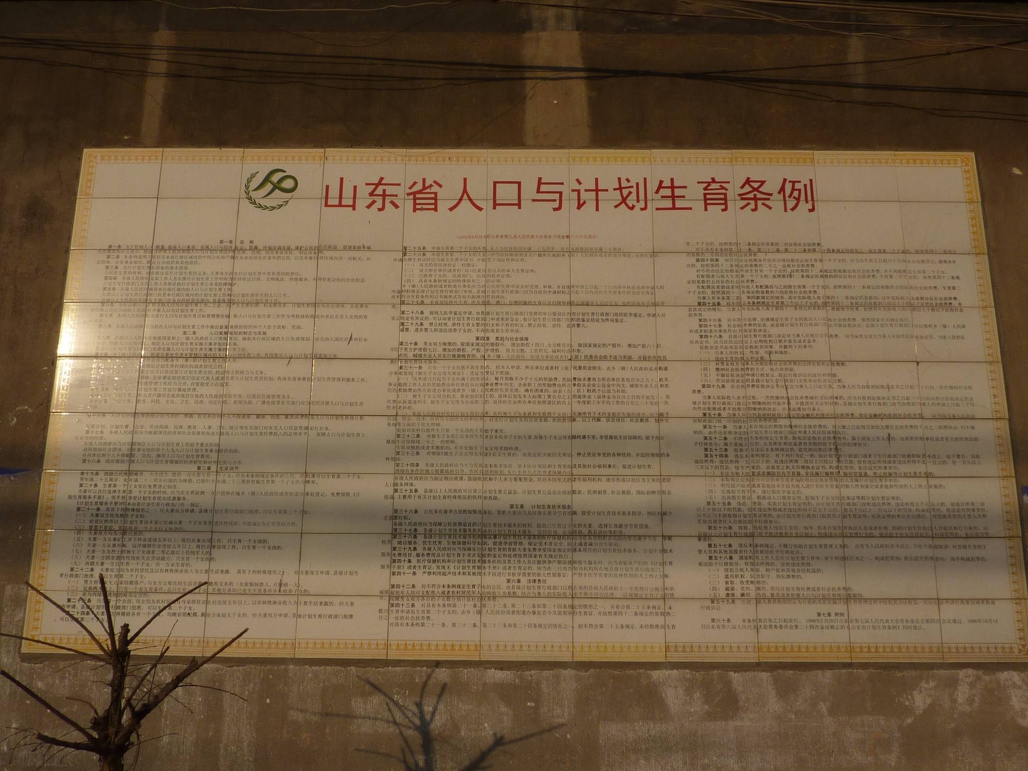 On a street of Jiuxian village (eastern outskirts of Qufu). On the house wall we see provincial regulations concerning population policy and family planning.